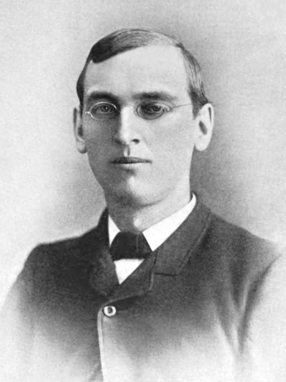 Capell L. Weems, member of the United States House of Representatives from St. Clairsville, Ohio.